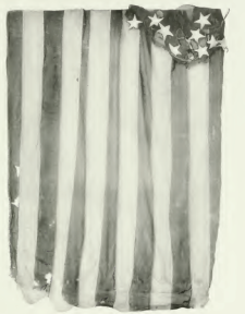 Captain Homer Hoyt's flag, which he famously dubbed "Old Glory."